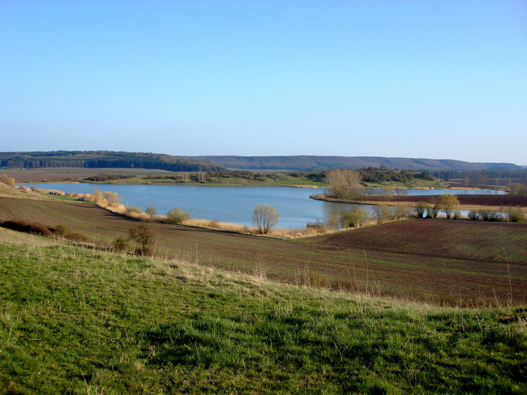 water supply dam Westhausen